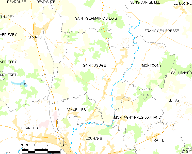 Map of French municipality